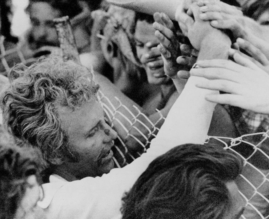 LG302 1974 Wire Photo EVEL KNIEVEL Failed Jump Over SNAKE RIVER CANYON Bleeding